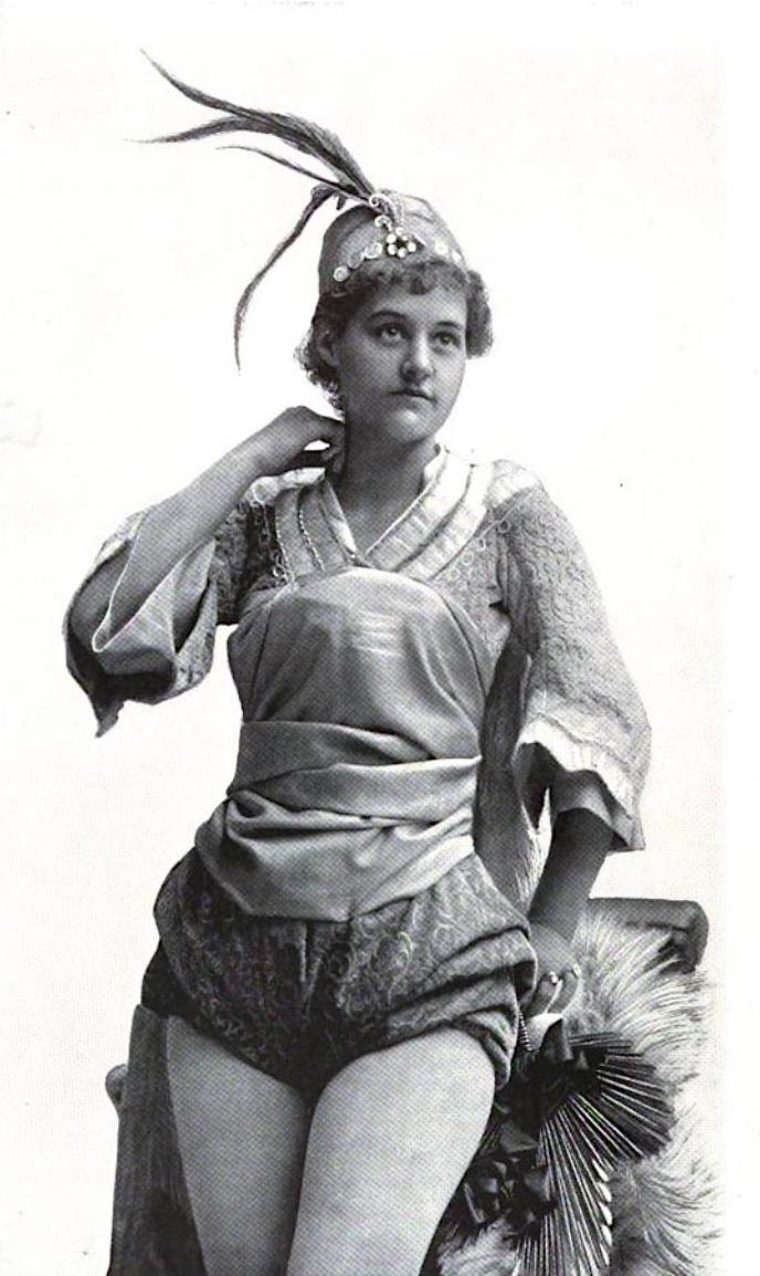 Helen Bertram, from an 1891 publication. A young white woman posing in costume, with a plumed cap, corseted bodice, and bare legs.